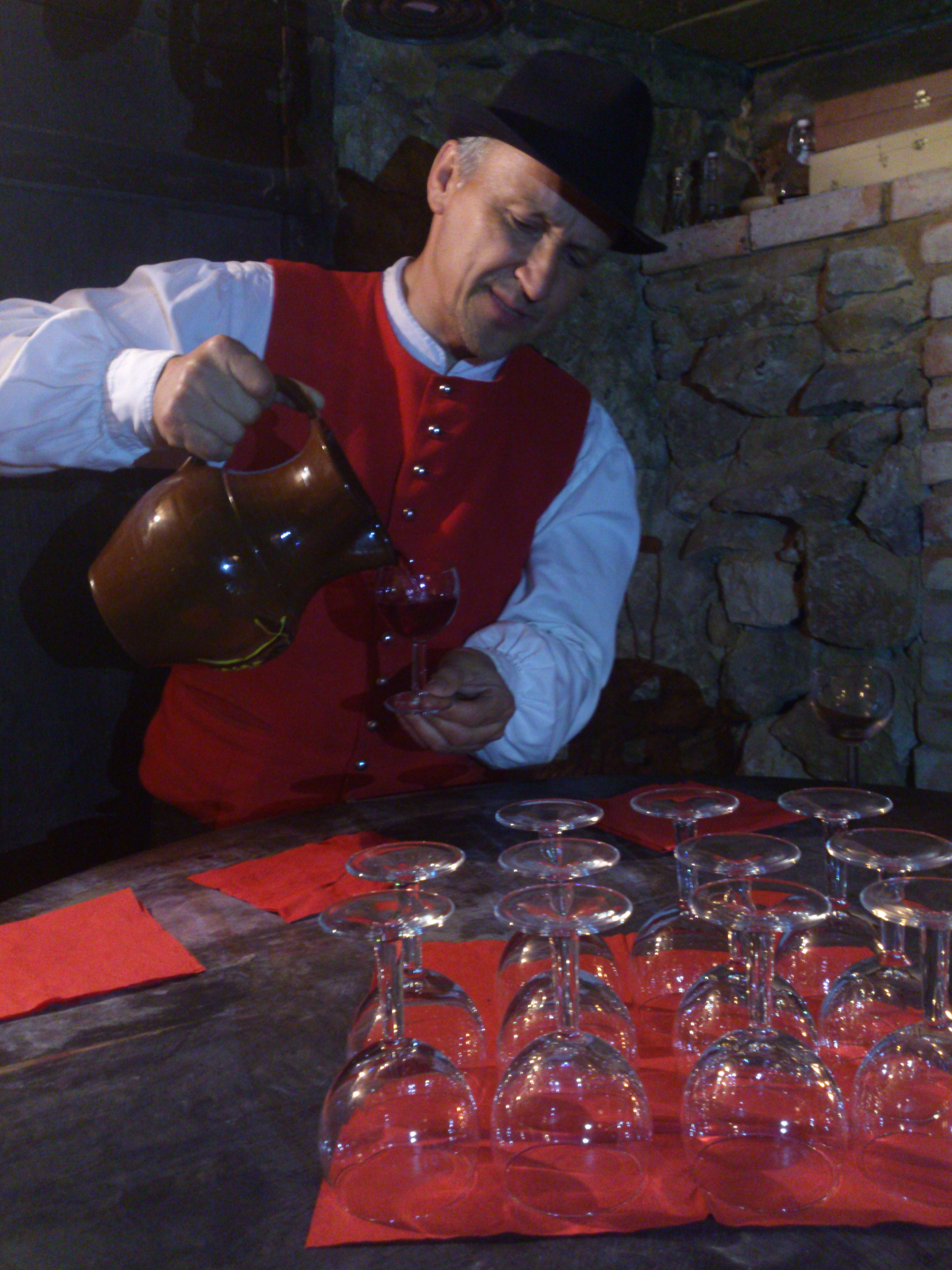 Showing the care and attention given to Cvicek